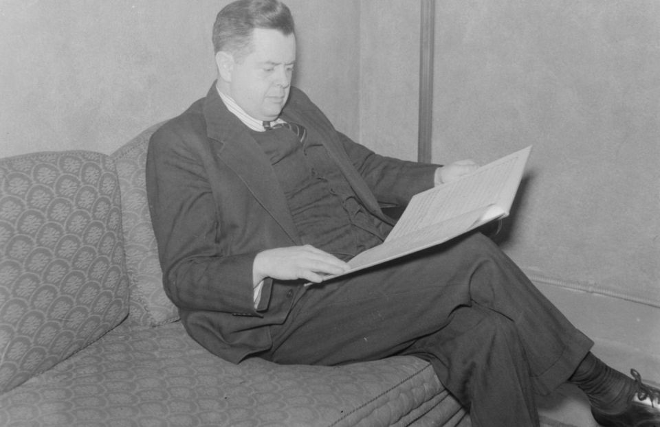 Sir Ernest MacMillan, from the Toronto Conservatory of Music, reads a musical score sitting on a sofa.